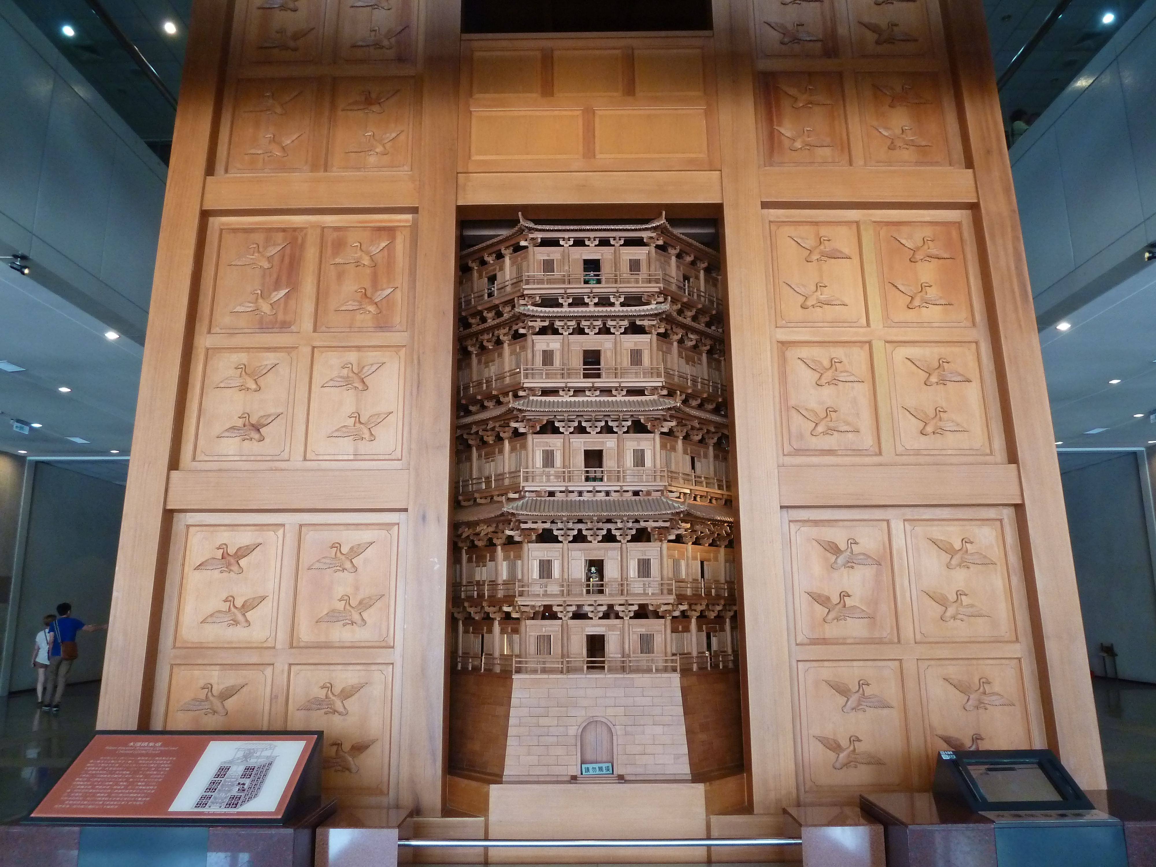 The Water-powered Armillary & Celestial Tower . It Show In National Museum of Natural Science.